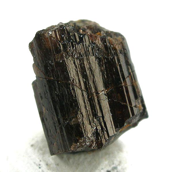 Painite Locality: Ohngaing (Ohn Gaing; Ohn Kai), Mogok, Sagaing District, Mandalay Division, Burma (Myanmar) (Locality at ) Size: 0.9 x 0.8 x 0.7 cm. Painite is a very rare calcium, zirconium, aluminum borate unique to several localities in the Mogok area of Burma. This euhedral crystal is from the Type Locality. It is highly lustrous and striated, reddish-brown and is translucent on the edges. Very little of this very rare material has come out recently.